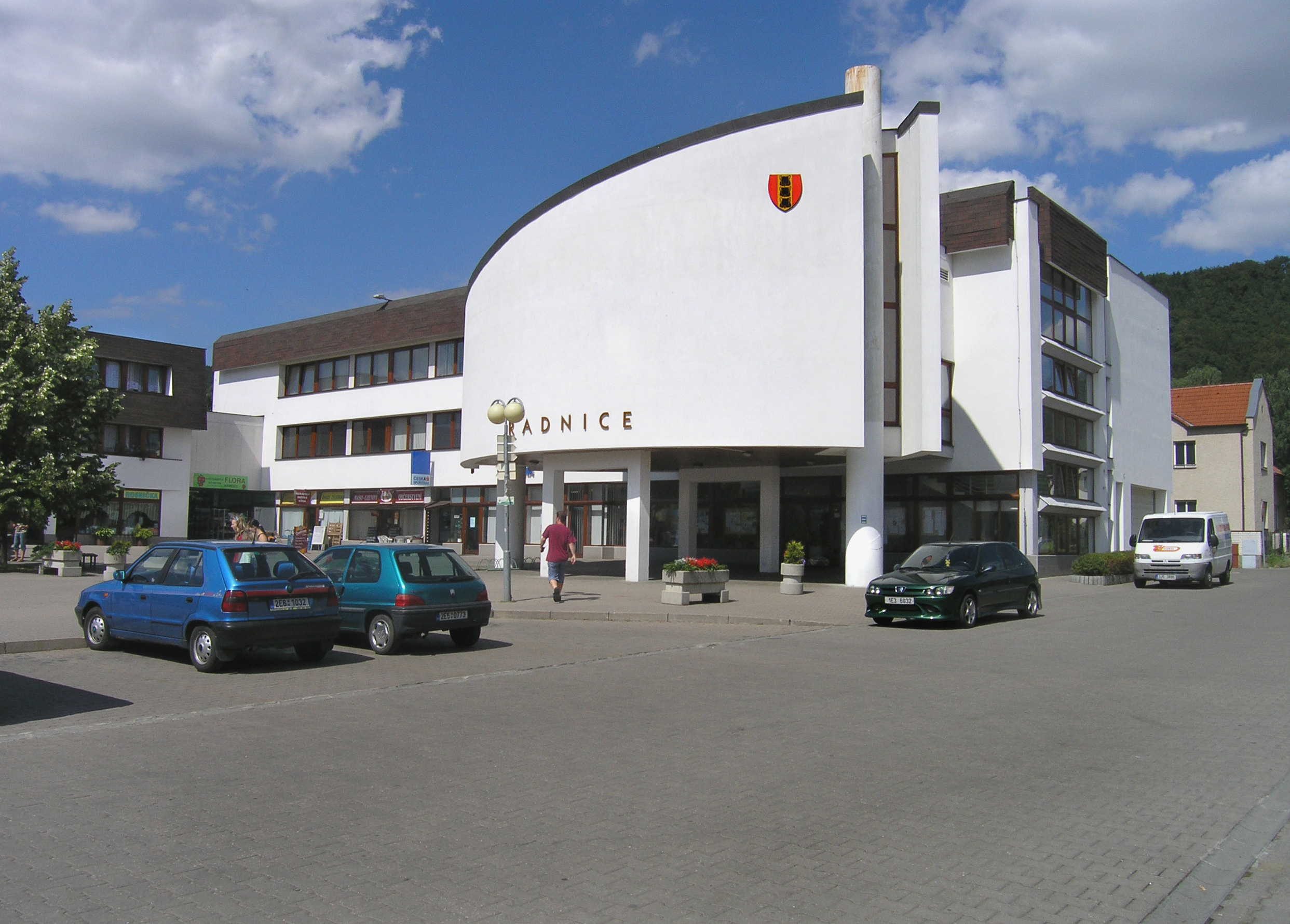 Town hall in Třemošnice, Czech Republic